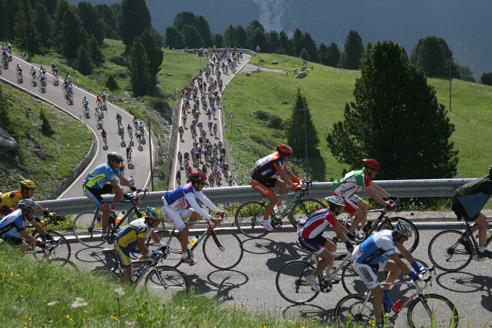 Maratona dles Dolomites 2008 edition ascent to Sella Pass - Picture provided by Maratona dles Dolomites Committee